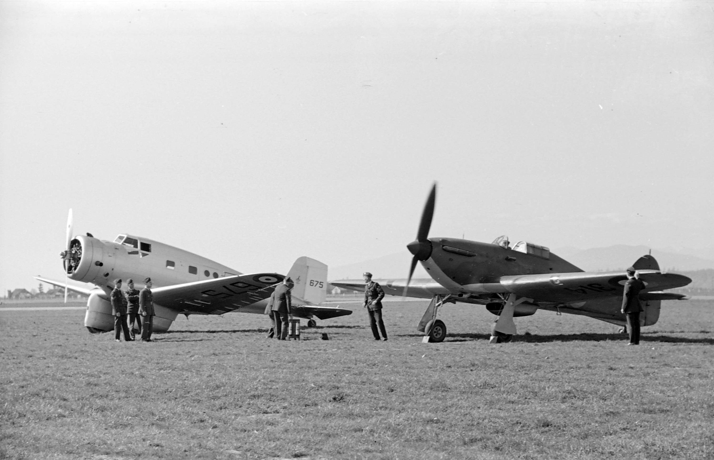 A Northrop Delta Mk. 1 (R.C.A.F. 675) airplane and Hawker Hurricane fighter.